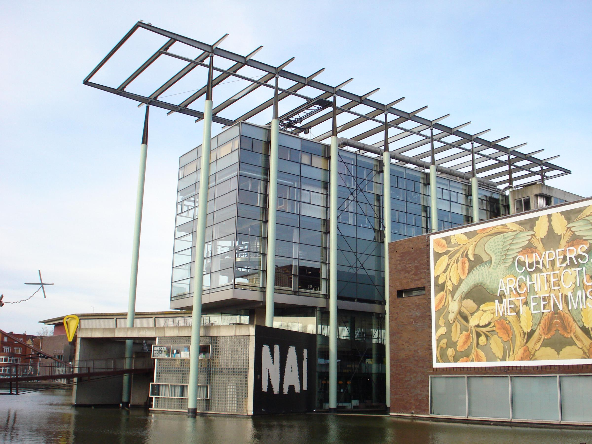 Nederlands Architectuurinstituut, Rotterdam